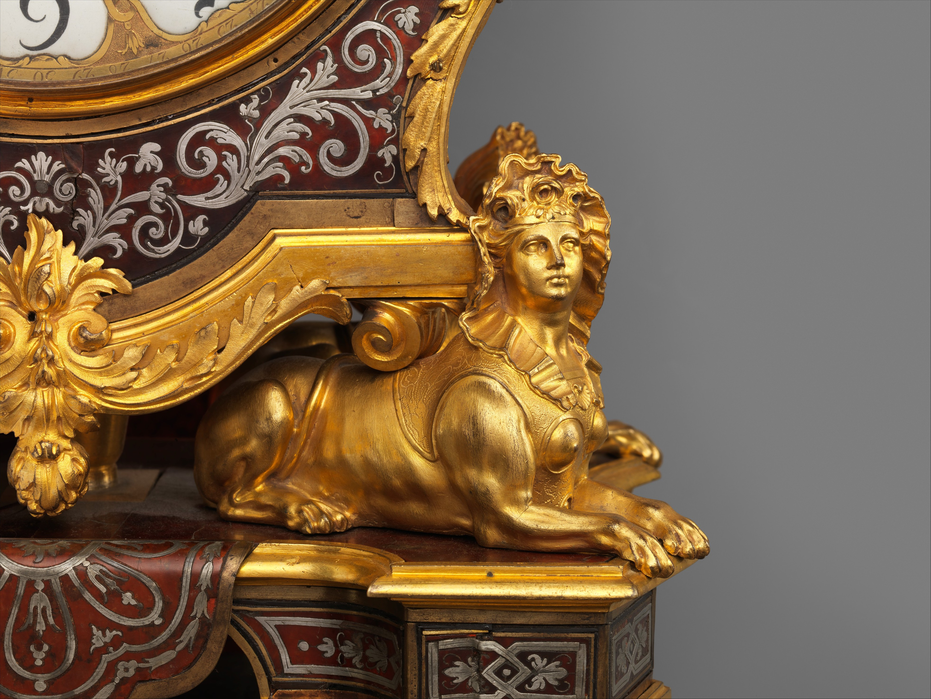 French, Paris; Clock with pedestal; Horology